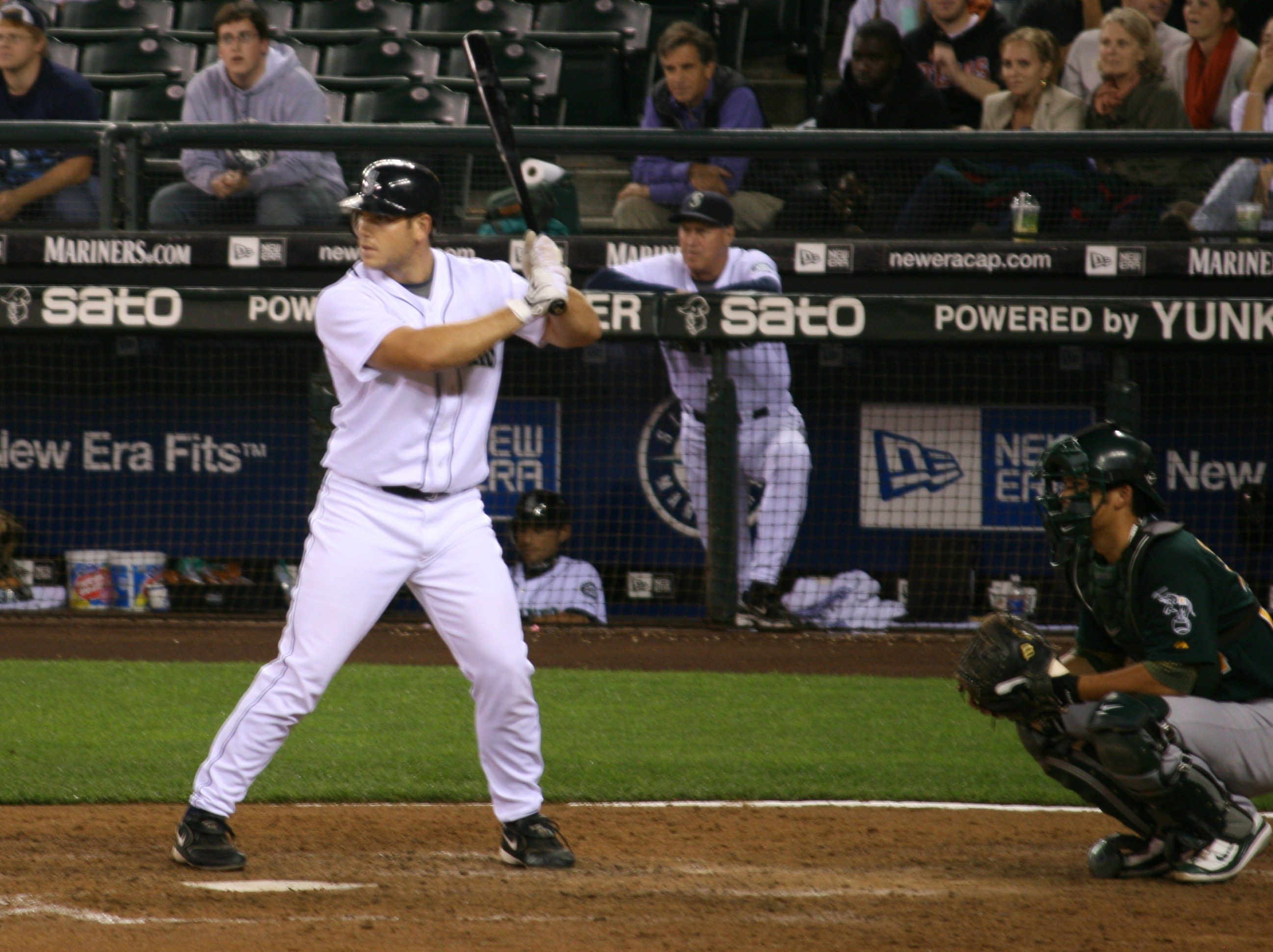 Jeff Clement in 2008.